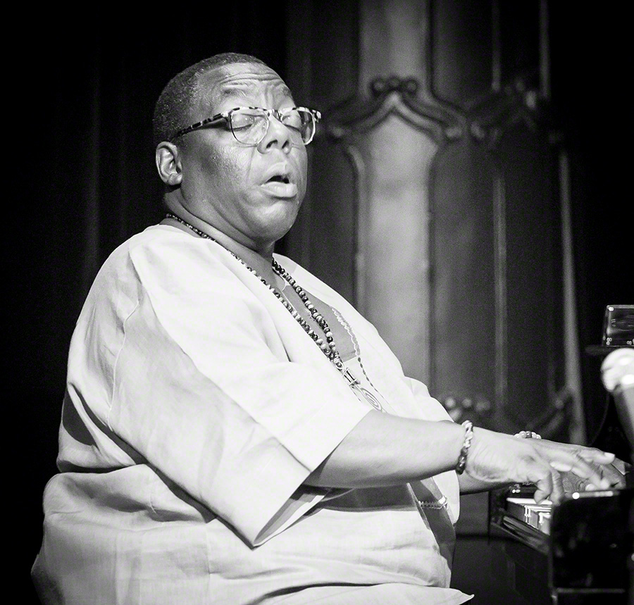 Cyrus Chestnut performs with Chestnut, Williams & White at the stage of Nasjonal Jazzscene Victoria. The concert was part of the Oslo Jazz Festival in Norway and took place on 14. August 2016. The super trio played at the first night of the festival. They have coorperated since 2015 and released one album, ”Natural Essence”.Lineup: Cyrus Chestnut (piano), Buster Williams (double bass), Lenny White (drums)